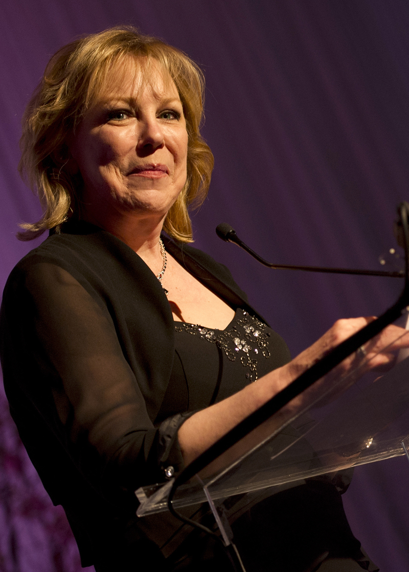 Ms. Mary Jean Eisenhower, President and CEO of People to People International and granddaughter of Dwight D. Eisenhower delivered the keynote address at the 5th Annual Military Child of the Year Awards Gala hosted by Operation Homefront at the Ritz-Carlton in Arlington, Va., on April 11, 2013.